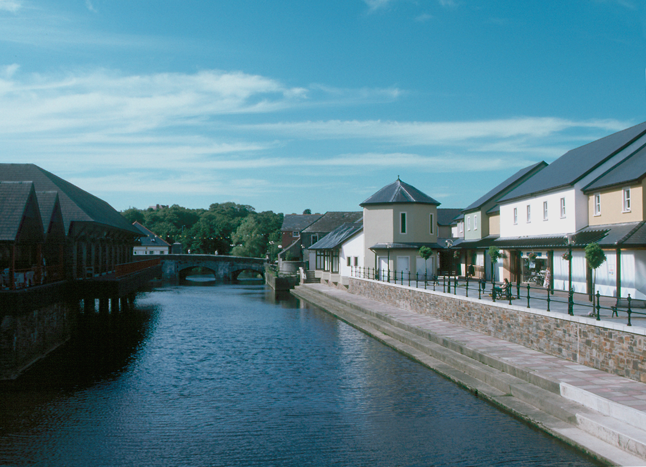 Riverside Quay and Old Bridge of Haverfordwest, located near Milford Haven in South Wales/GB